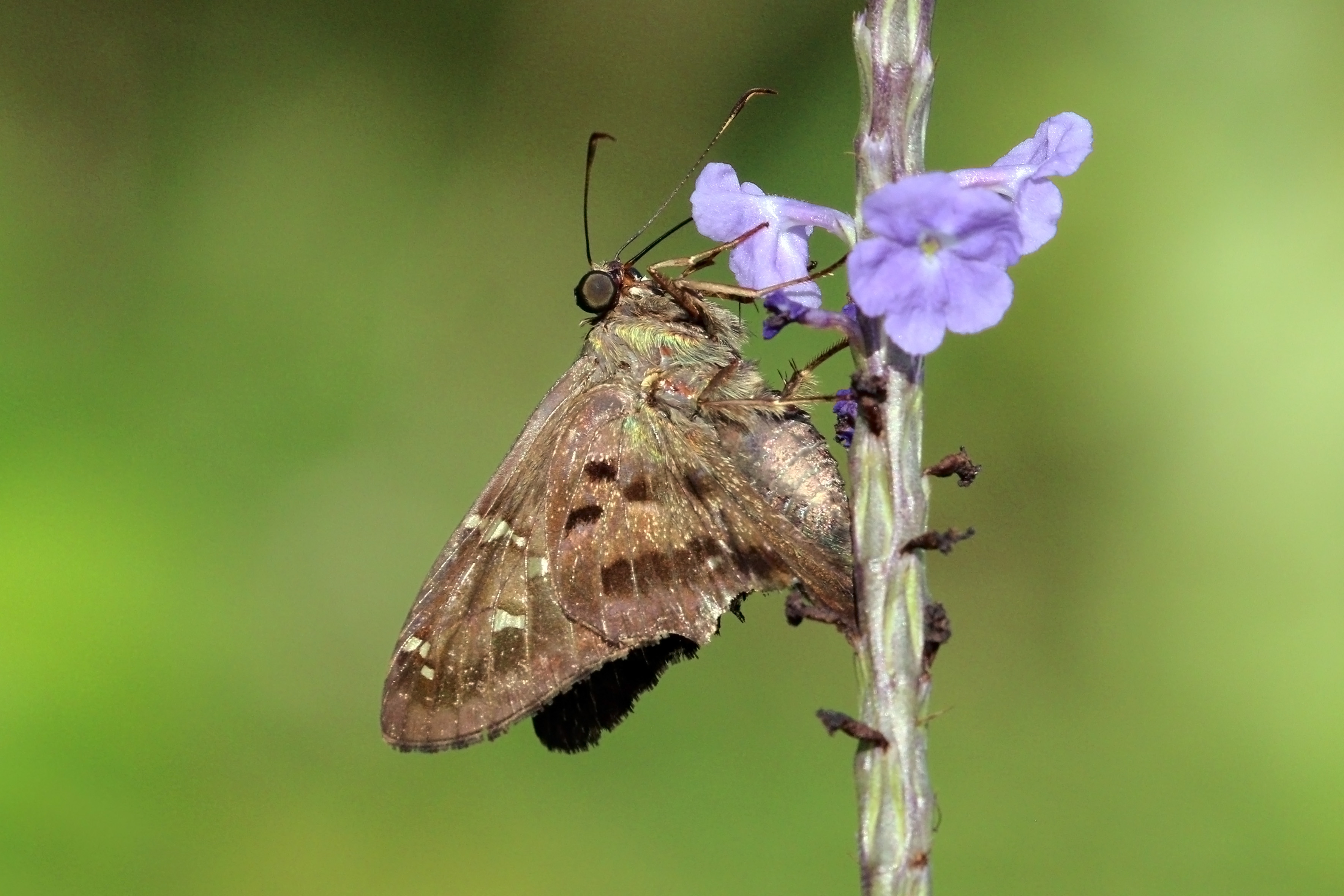 Long-tailed skipper (Urbanus proteus domingo), Grand Cayman